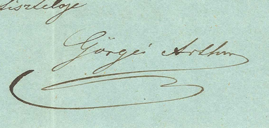 The signature of Artúr Görgei in a letter written by him to Gábor Kazinczy in 26th May 1849.